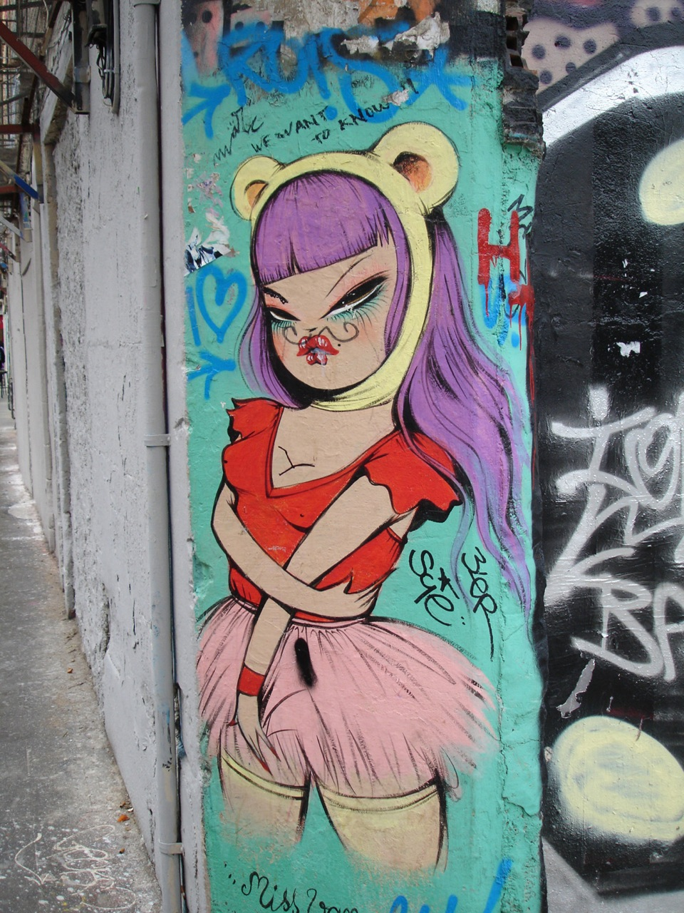 Graffiti by Miss Van, Carrer de les Floristes de la Rambla, Ciutat Vella (Barcelona)Miss Van